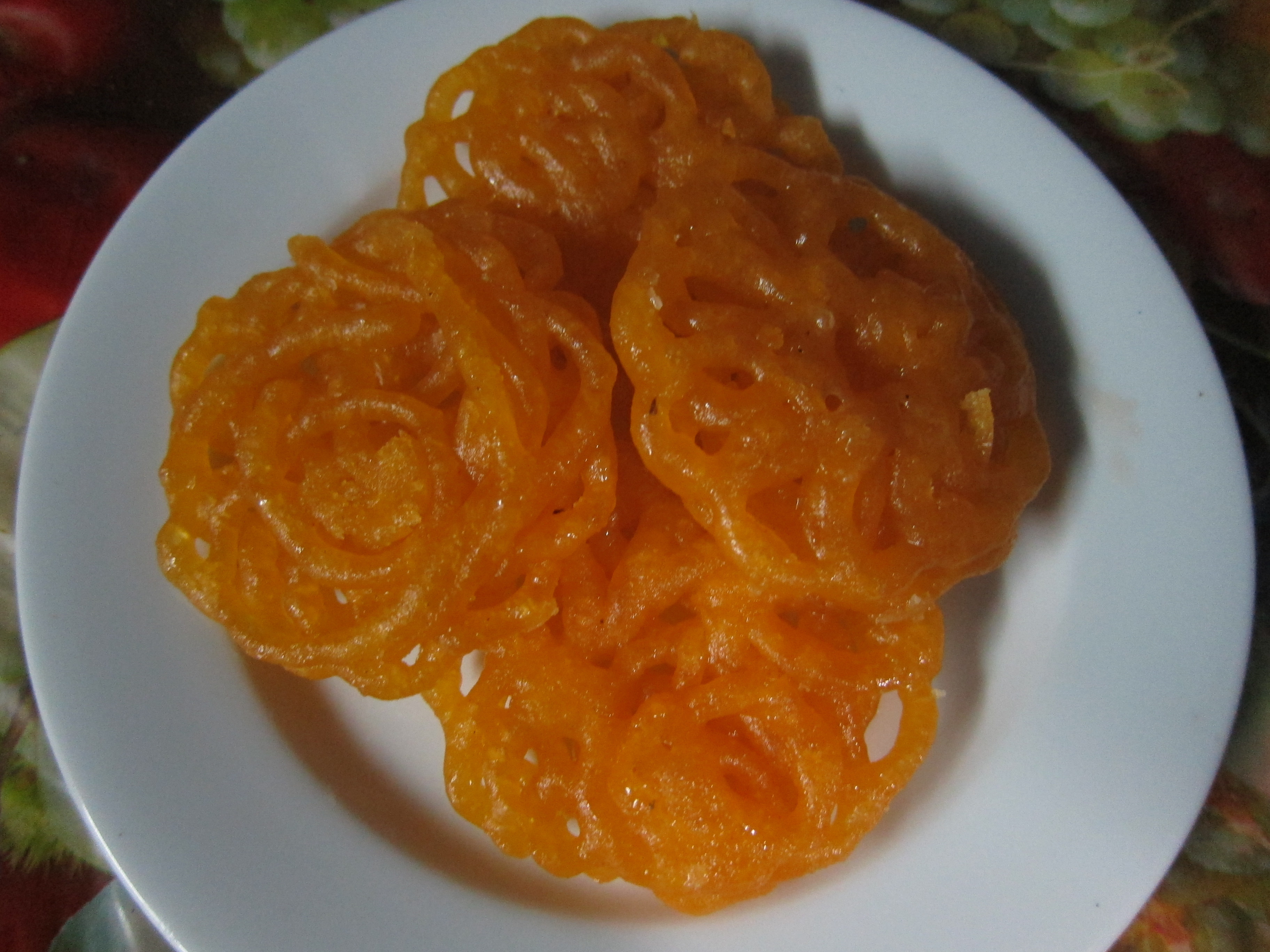 Jilebi - ജിലേബി